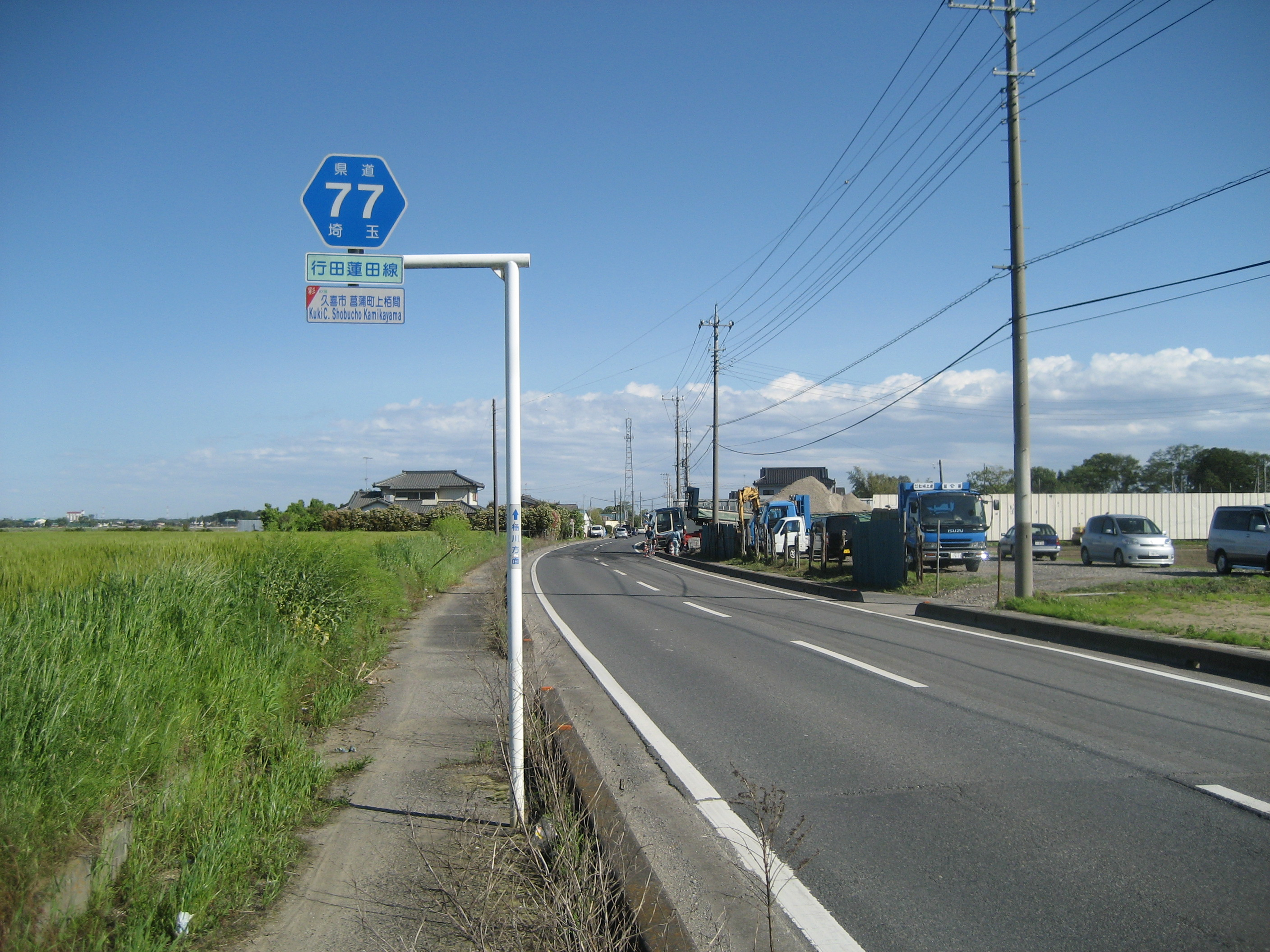 The Saitama Prefectural Road Route 77 in Kuki City